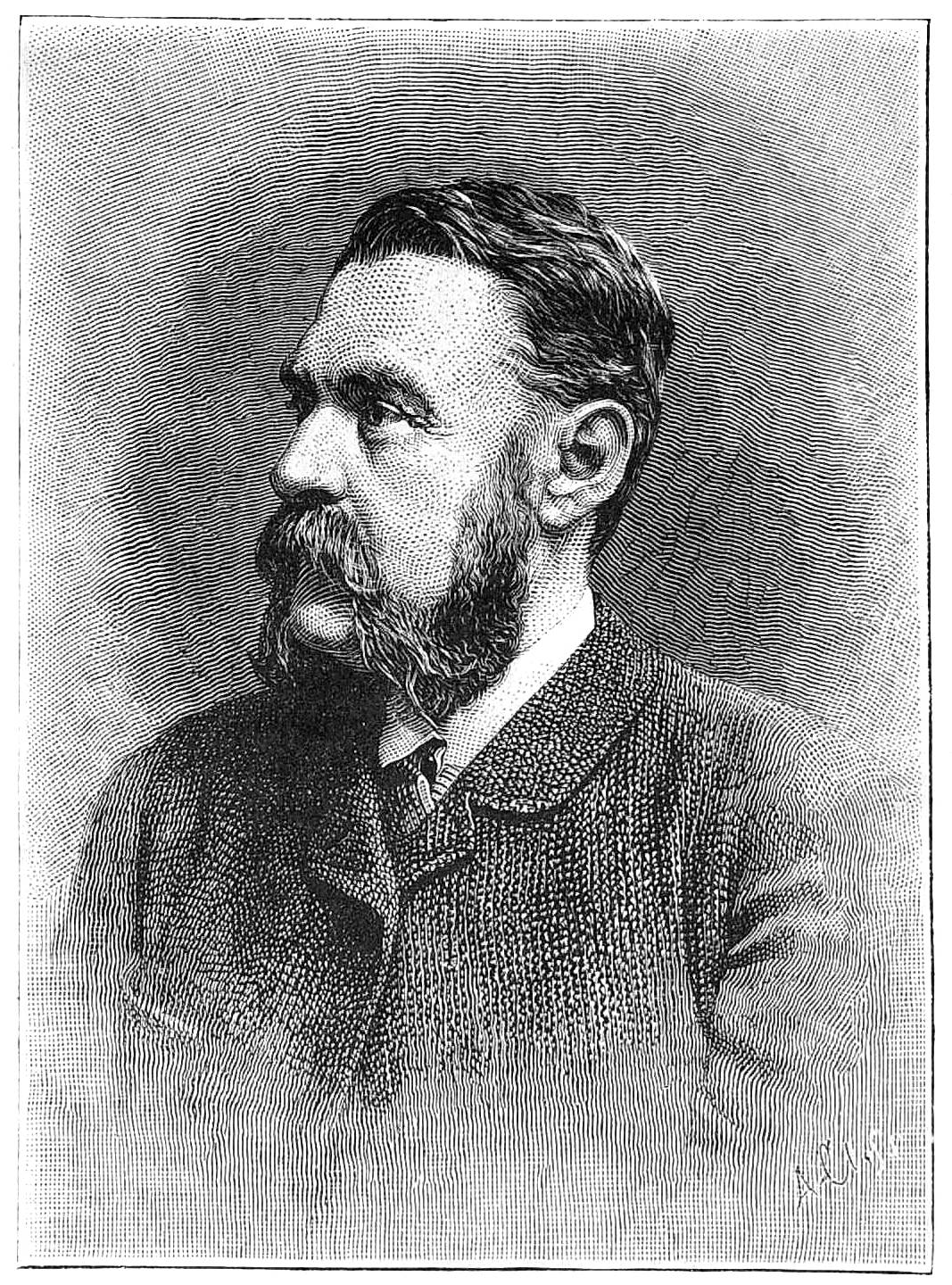 no caption